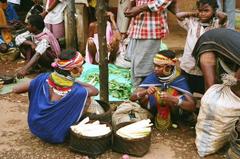 Bonda people - women at a market